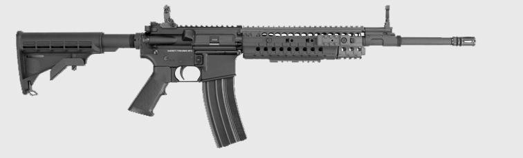 An image of a Barrett REC7. By Tominator.